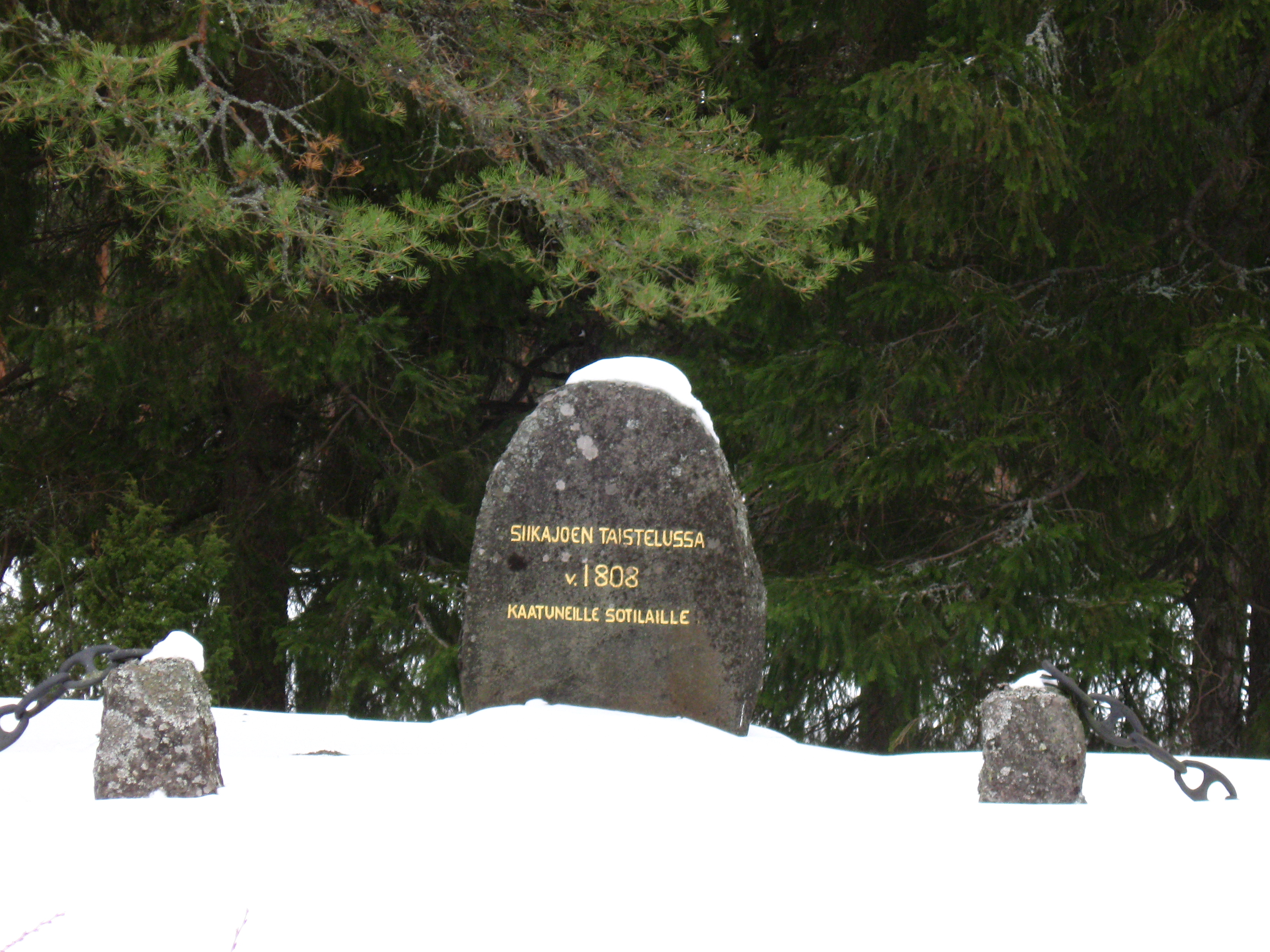 The memorial stone of the soldiers died in the battle of Siikajoki, Finland, 1808-04-18